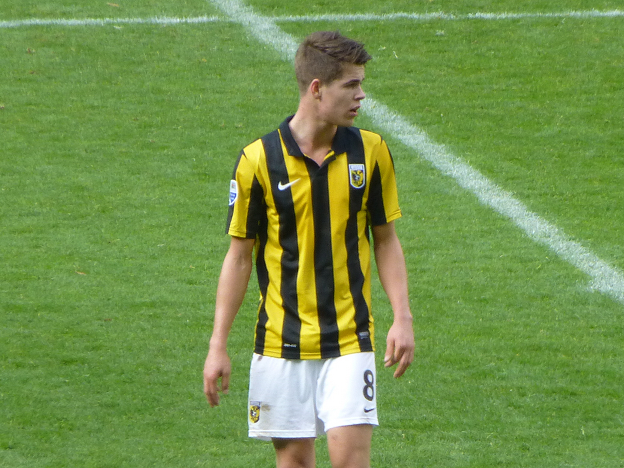 Marco van Ginkel in GelreDome during football match Vitesse vs. FC Twente